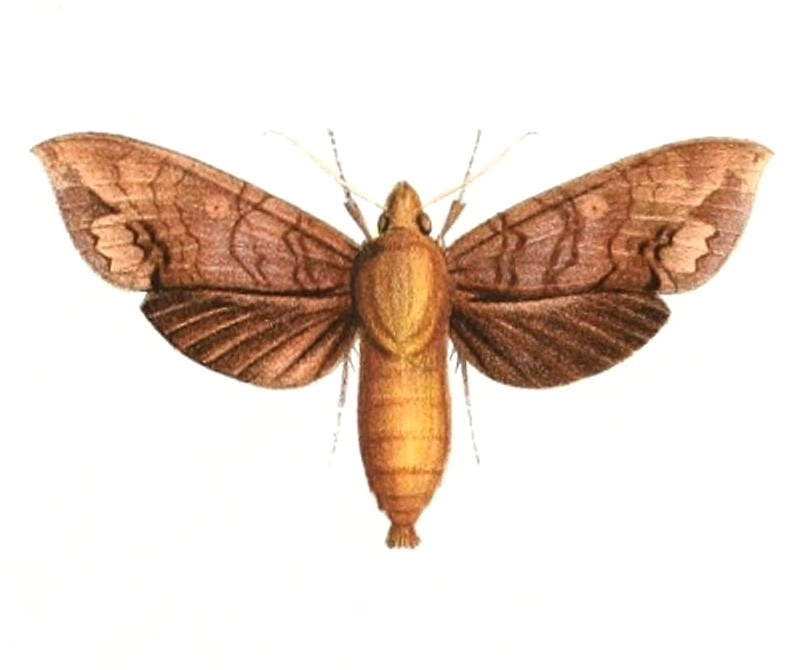 « Hypaedalia butleri » = Hypaedalea butleri